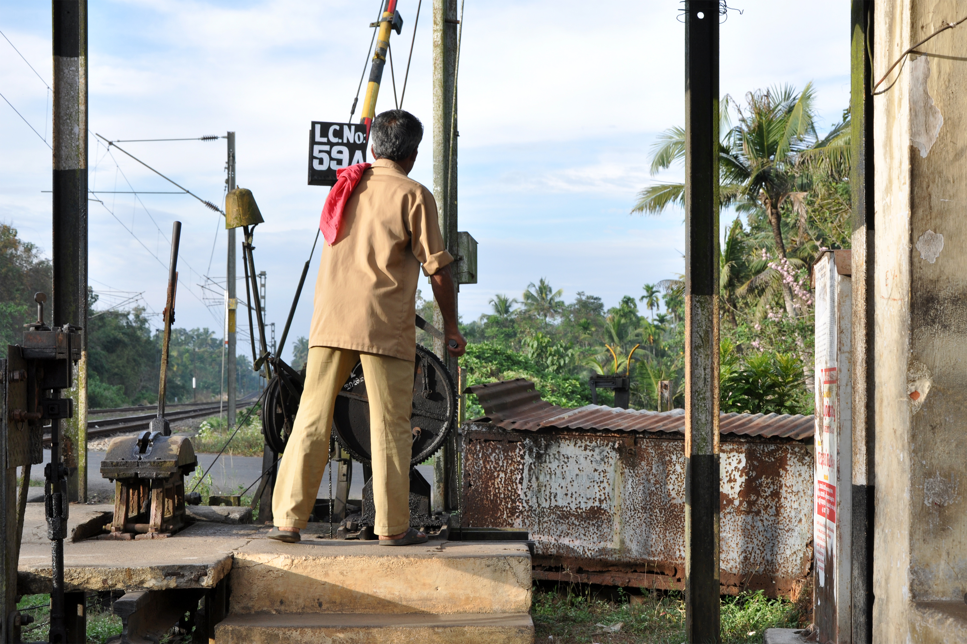 A railway gatekeeper closes the gate at a level crossing #59A in Angamaly, Kerala, India.